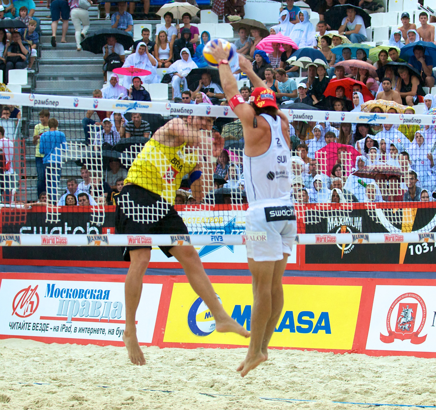 Grand Slam Moscow 2011